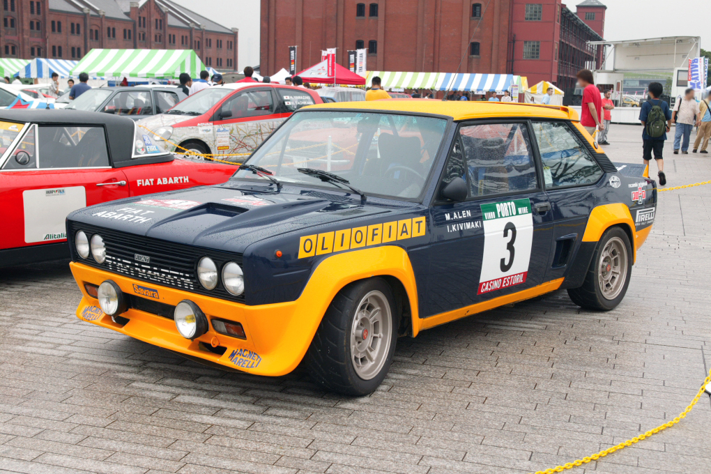 Fiat 131 Abarth at The Spirit of Rally 2005.